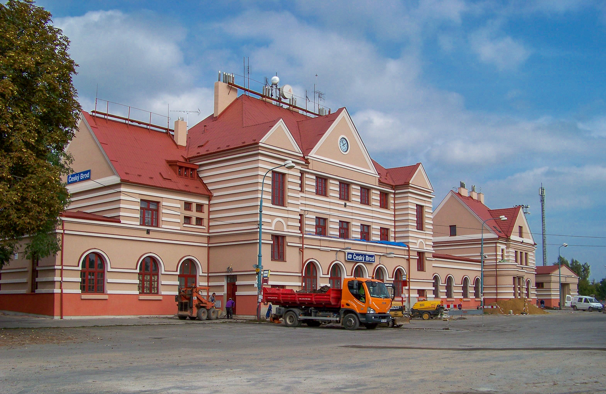 Český Brod, Kolín District, Central Bohemian Region, the Czech Republic. Krále Jiřího street, a train station.